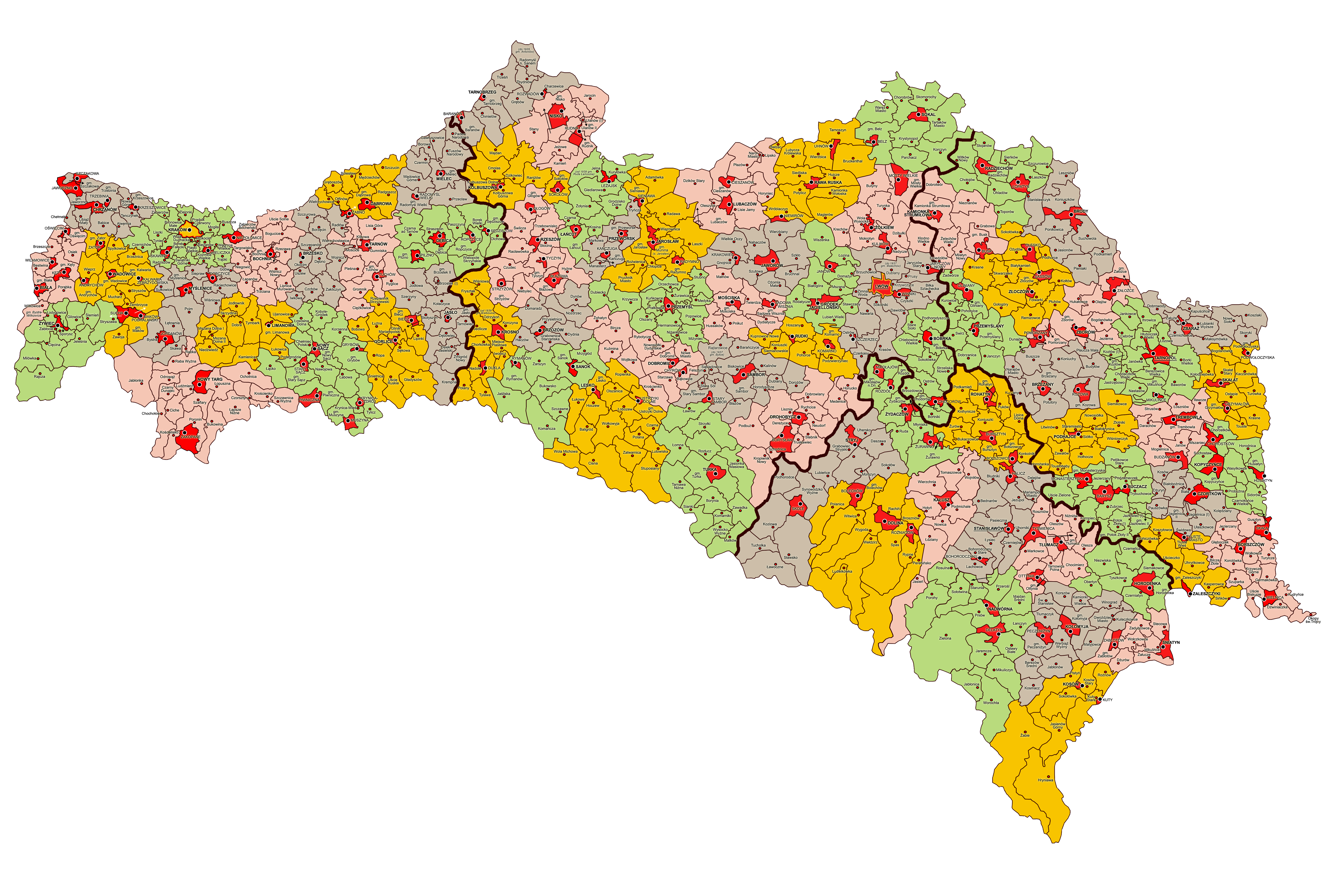 Composite administrative map of the historical region of Galicia (Eastern Europe), comprising the voivodeships of Kraków, Lwów, Stanisławów, and Tarnopol,. Created from separate maps contributed by author Qqerim, also licensed under CC-BY-SA.